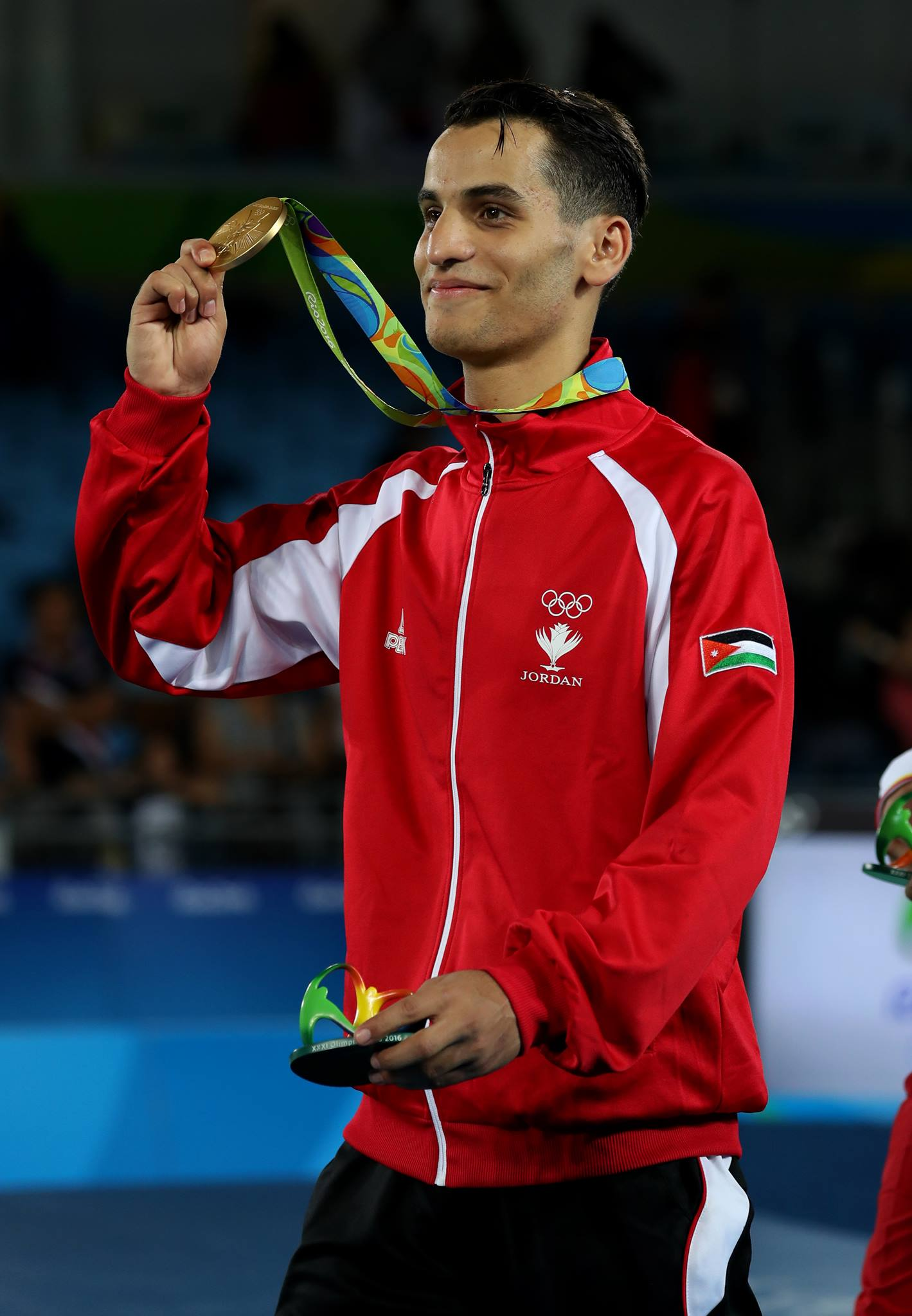 Ahmad Abughaush by Salem Khames the 2016 Summer Olympics in Rio de Janeiro, in the men's 68 kg